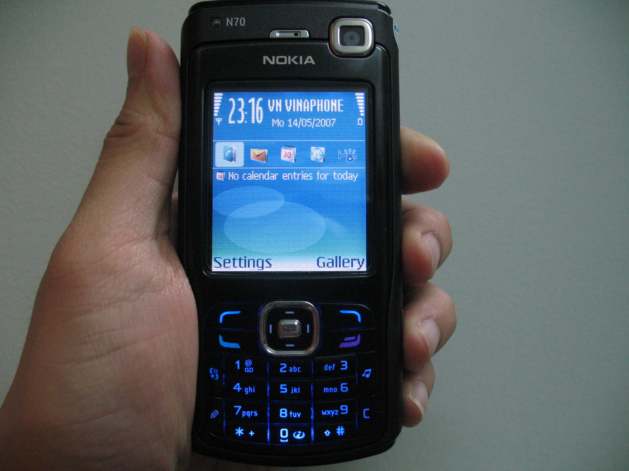 From English Wikipedia caption: The N70, featuring a front-facing camera, like its predecessor Nokia 6680 Tagalog: Mula sa paglalarawan sa Wikipediang Ingles: Ang N70, tampok ang kamera sa harap nito, tulad ng nauna nitong Nokia 6680